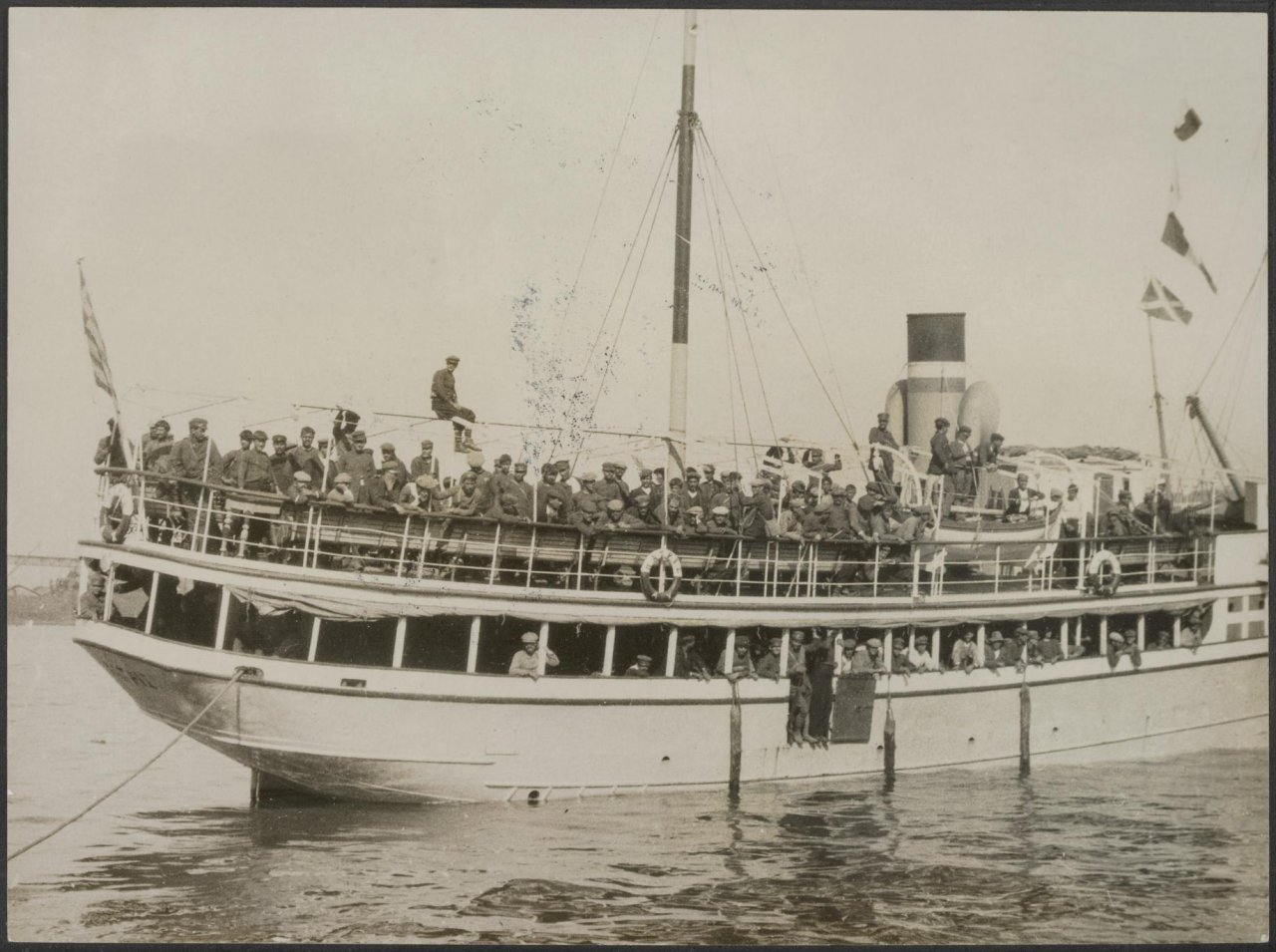 A daily scene at Salonica. Greek Volunteers arriving to join the new force.